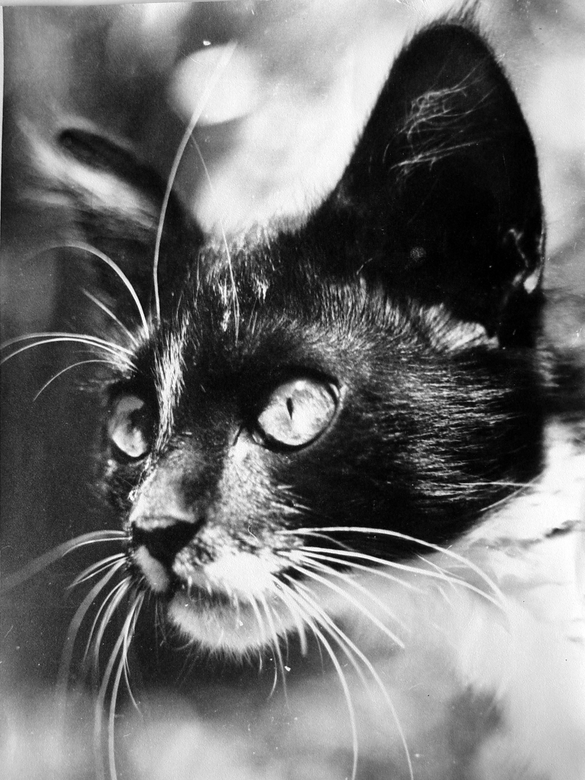 Mungo - beloved cat of composer Josef Tal. Photo made by Tal in Jerusalem, and won a local prize.